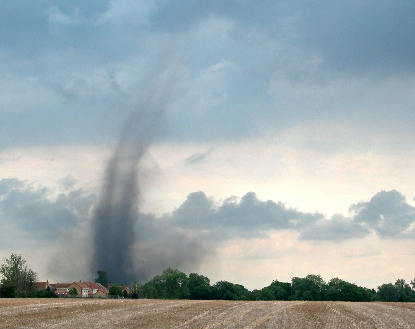 Taken from the A10 at the west boundary of Little Thetford this photo shows a tornado passing West over the village of Little Thetford, Cambridgeshire. The colour is due to large quantities of dark earth being sucked up from the nearby fields on the approach to the village. It died out as it reached built up area.